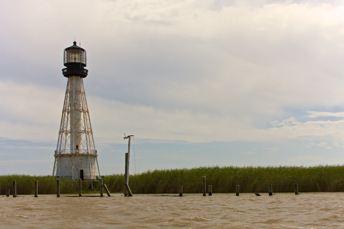 Lighthouse at Port Eads, Louisiana. Built in 1881, the light is still active.